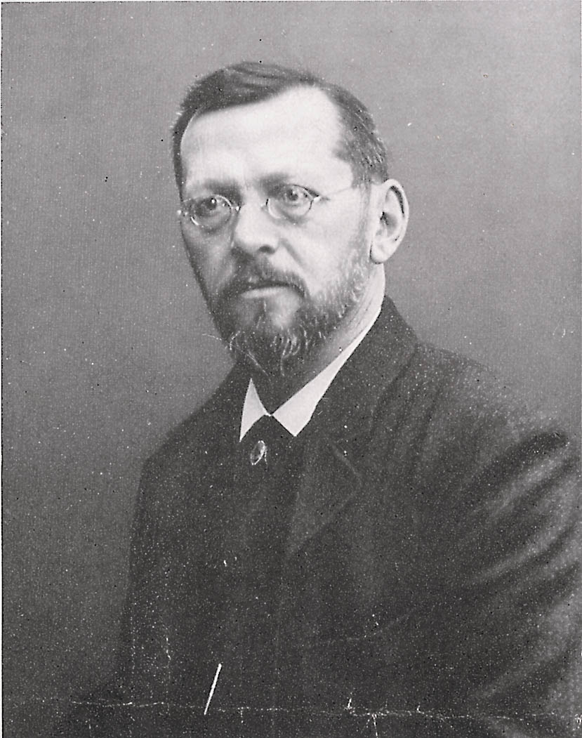 Portrait of Theodor Barth